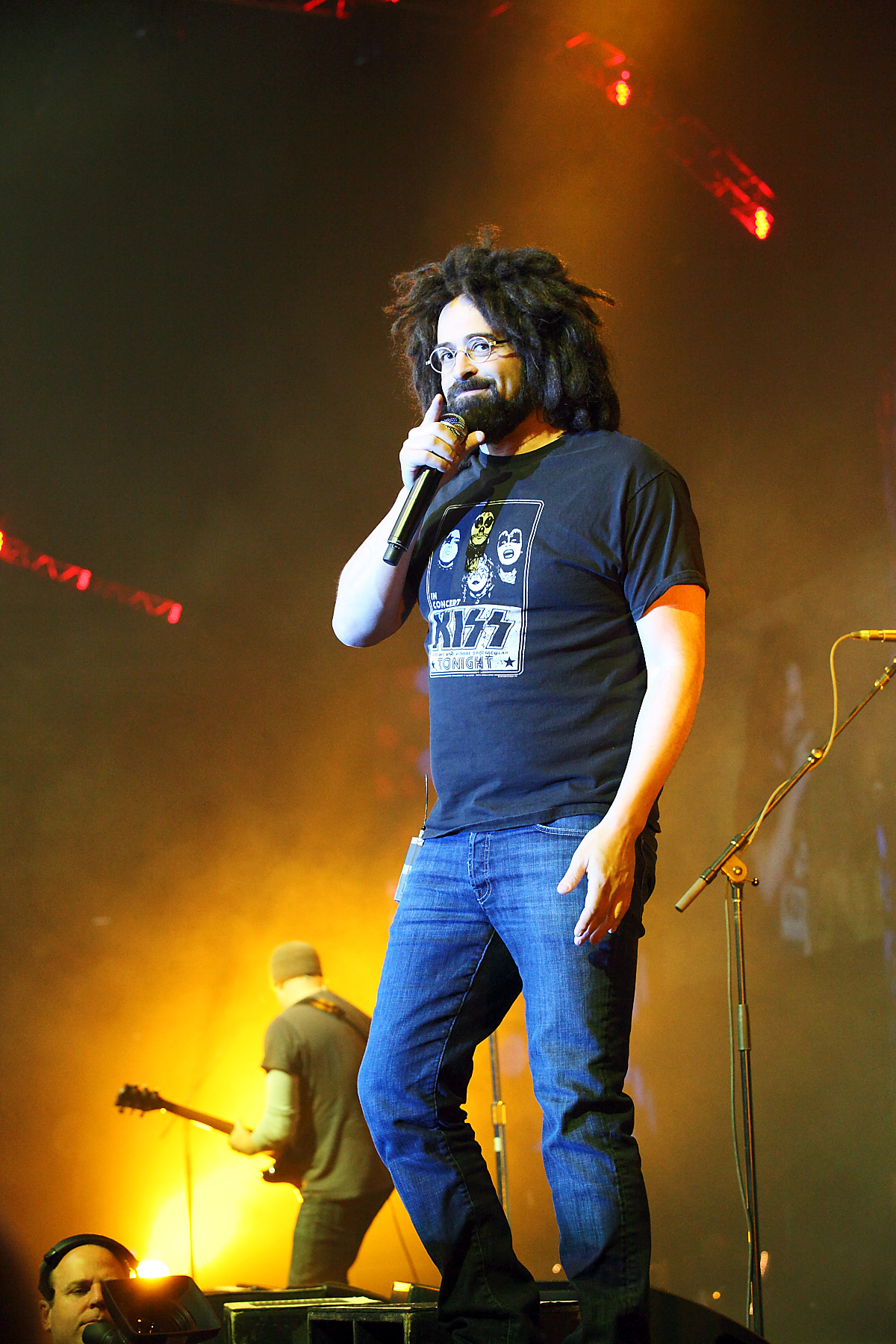 Adam Duritz of the Counting Crows at EMC World 2010 Photographer: David Elmes